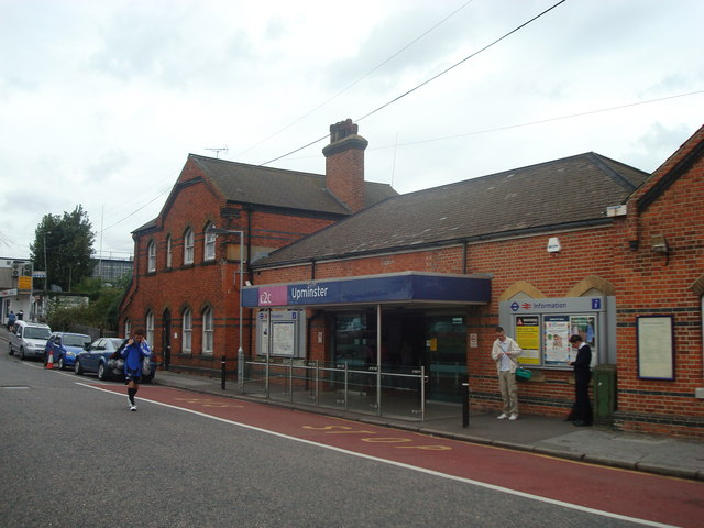 Upminster Railway Station